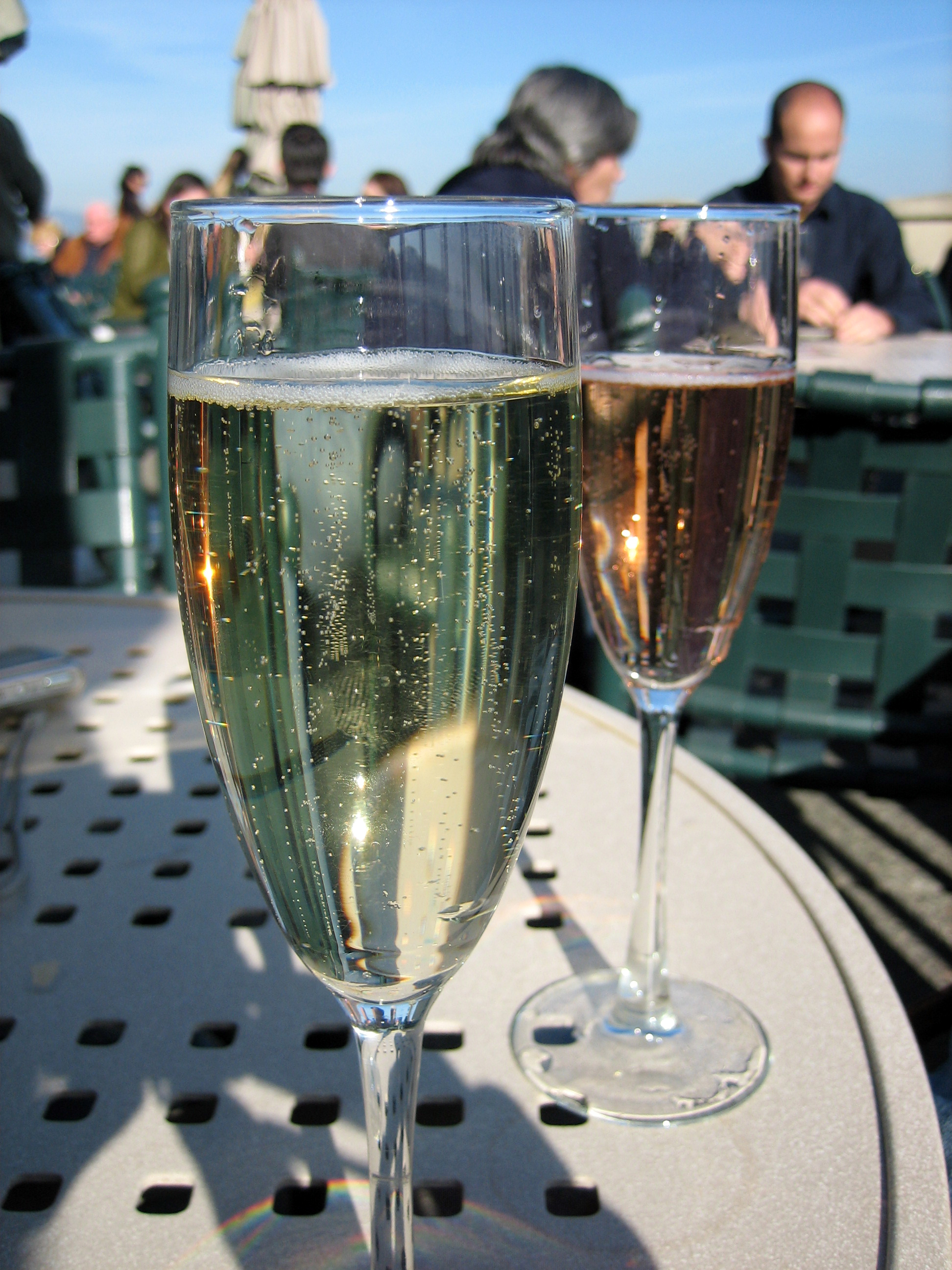 California sparkling wine from Sonoma estate of Gloria Ferrer - 1997 Royal Cuvée and 2003 Brut Rosé.